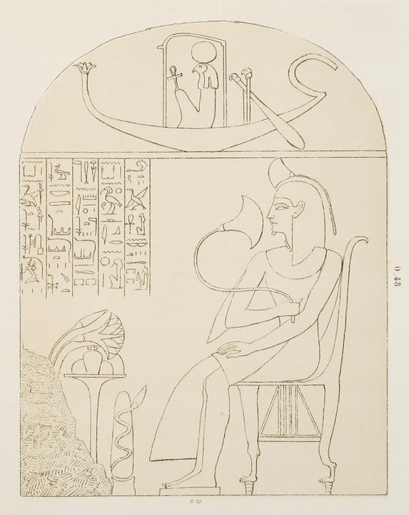 Drawing of the funerary stele of the High Priest of Amun Payankh. From Abydos, now in Cairo Museum. 20th dynasty, New Kingdom.